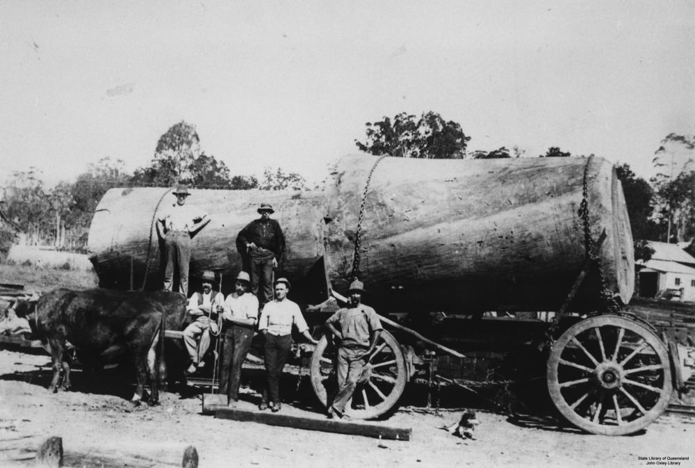 Timber logs being hauled by bullock teams in the Eudlo district, Queensland, ca. 1905. Large timber logs (probably Agathis australis ) being hauled by bullock teams in the Eudlo district, Queensland, around 1905. Among the workers pictured is George Lander (far right).